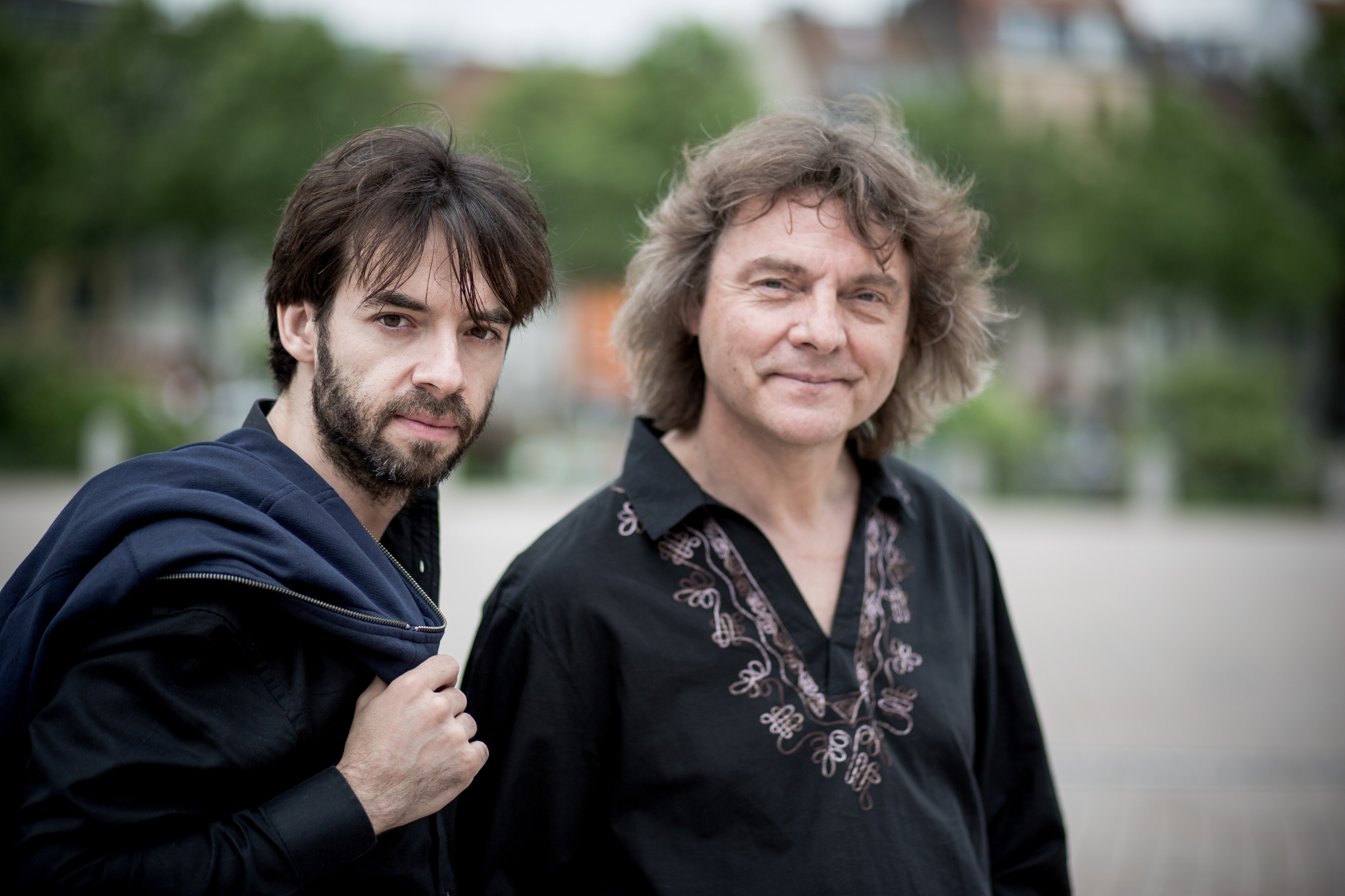 The Russian musician Arkady Shilkloper (right) with Vadim Neselovsky